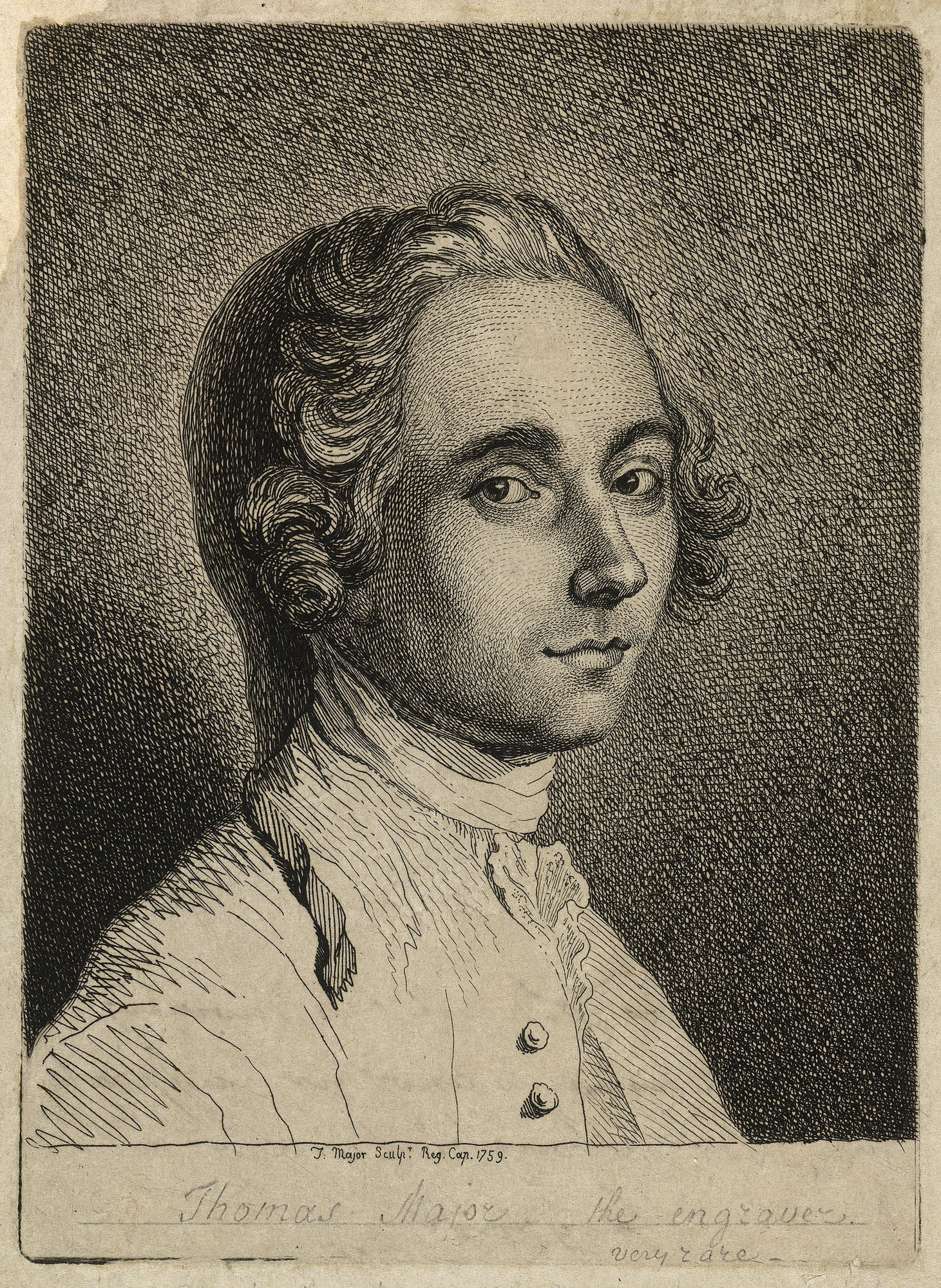 Thomas Major (1720-1799); English engraver and chief seal engraver to the British King - Self-portrait